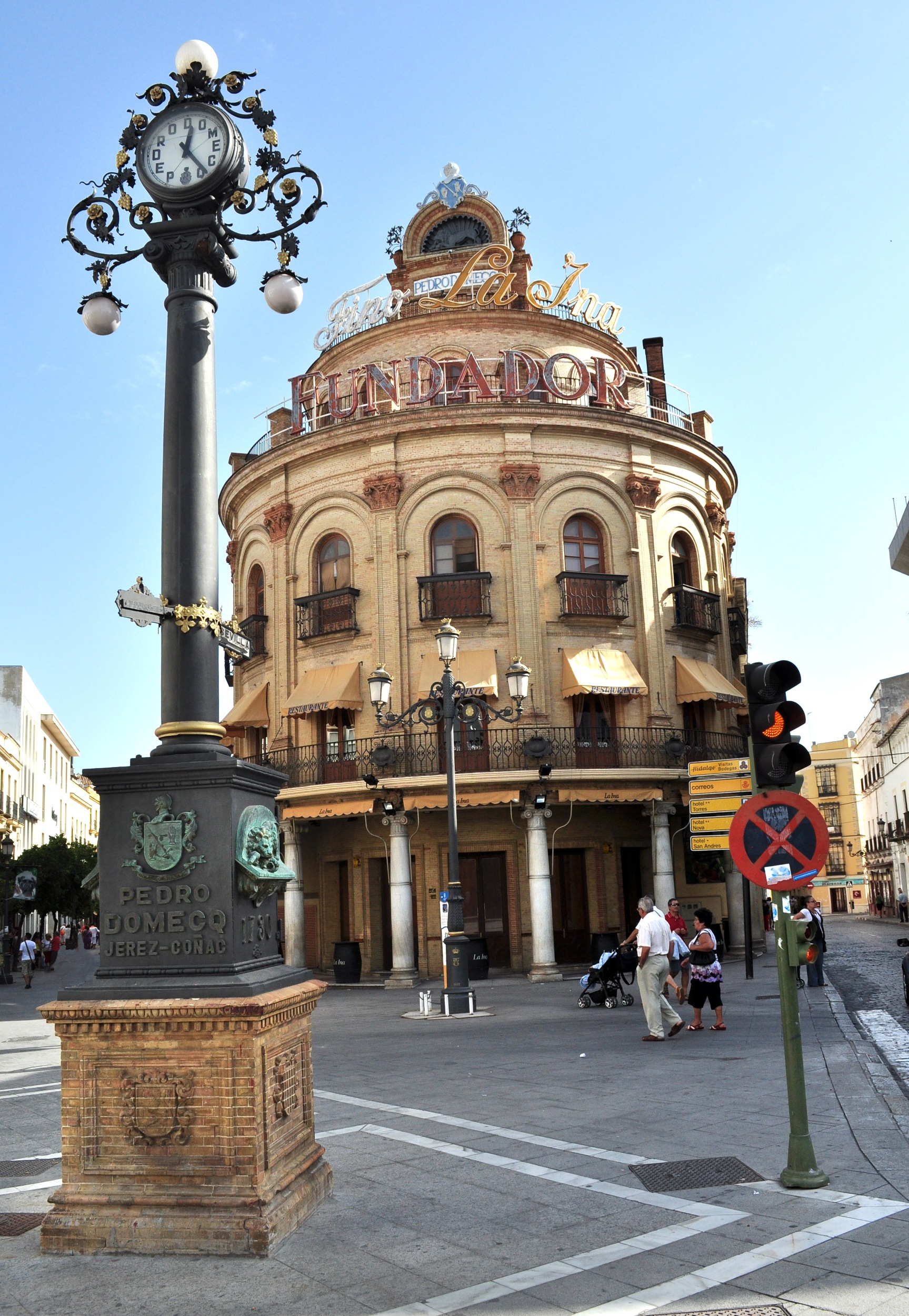 Gallo Azul, Jerez